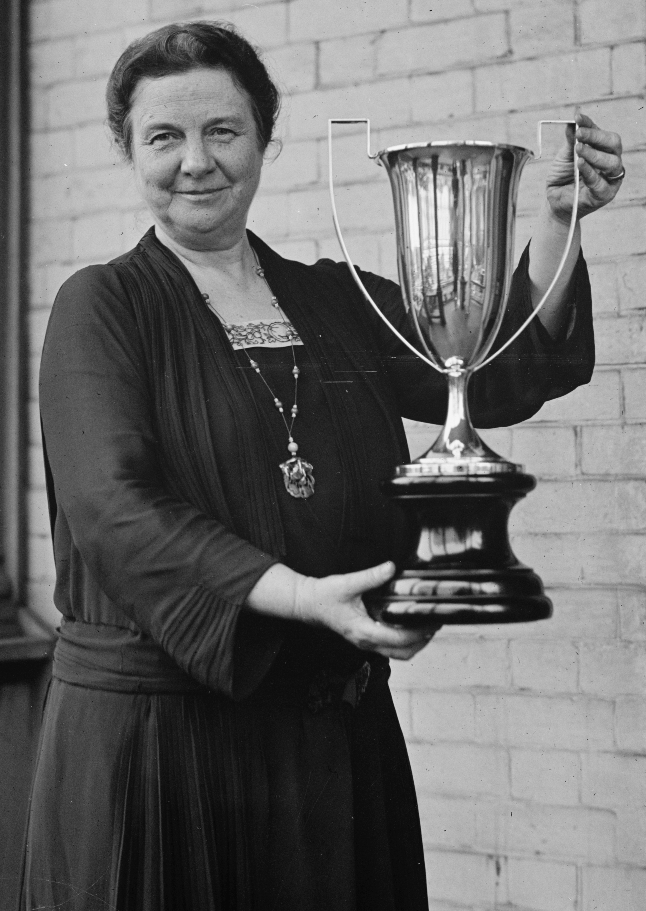 American women's rights activist Belle Sherwin (1869-1955)